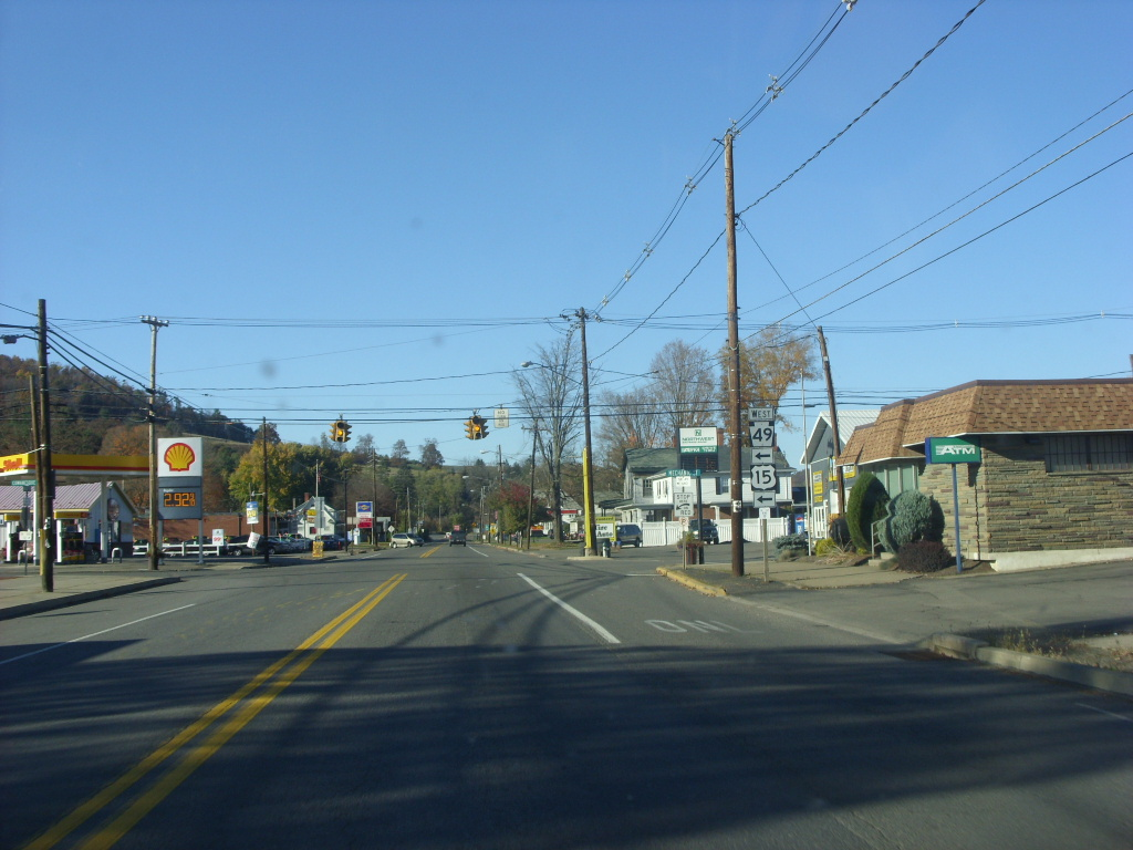 Pennsylvania Route 287 at the intersection with Pennsylvania Route 49 and a connector to U.S. Route 15.